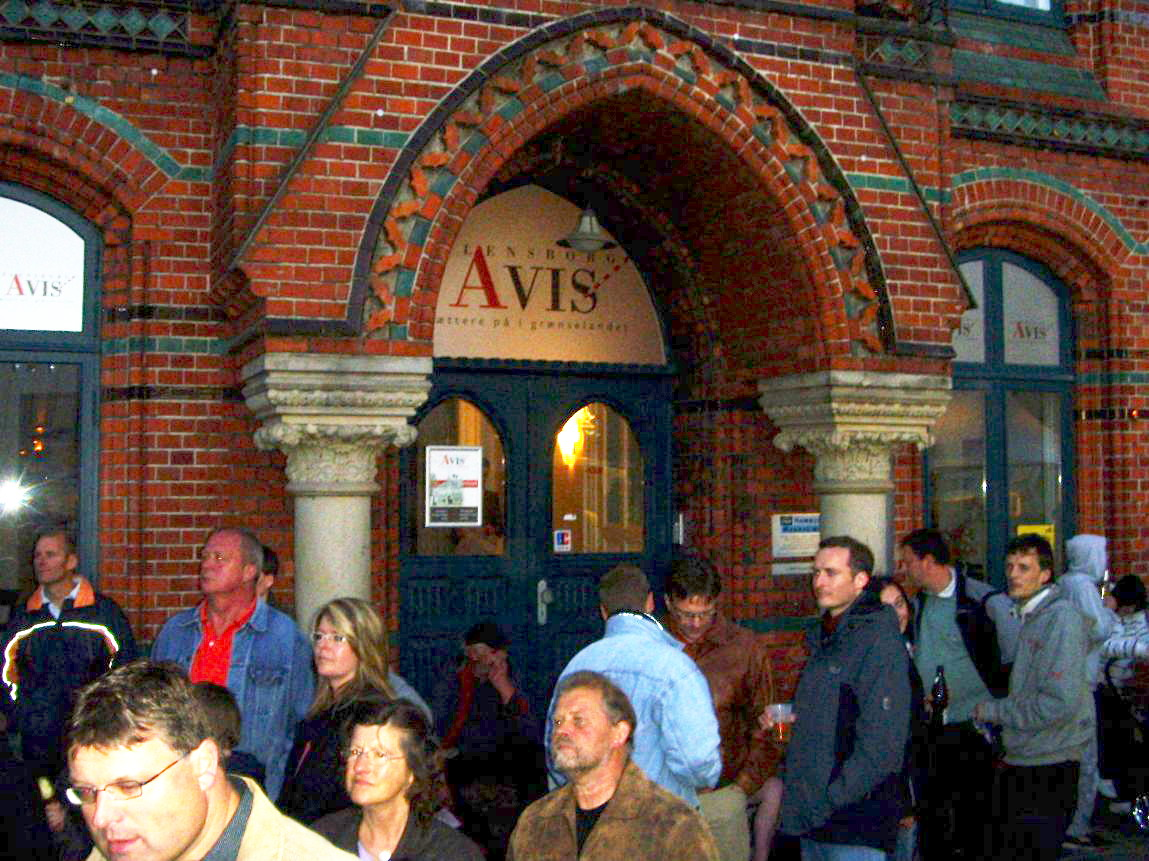 Flensborg Avis is a Danish language daily newspaper, published in Flensburg (Danish: Flensborg), Germany. Outside the newspaper office during a town festival in Flensburg.